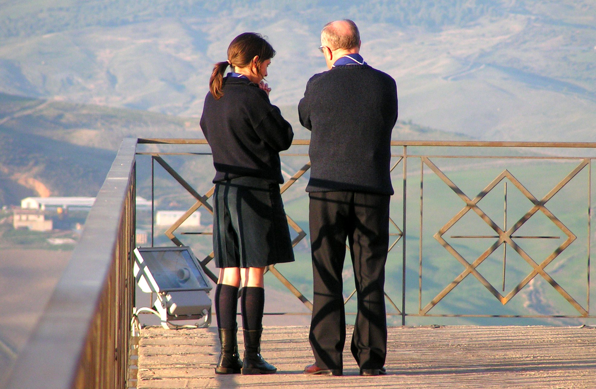 Scout in confession